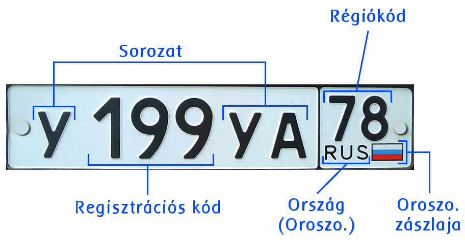 Russian License Plate (With description). Hungarian version